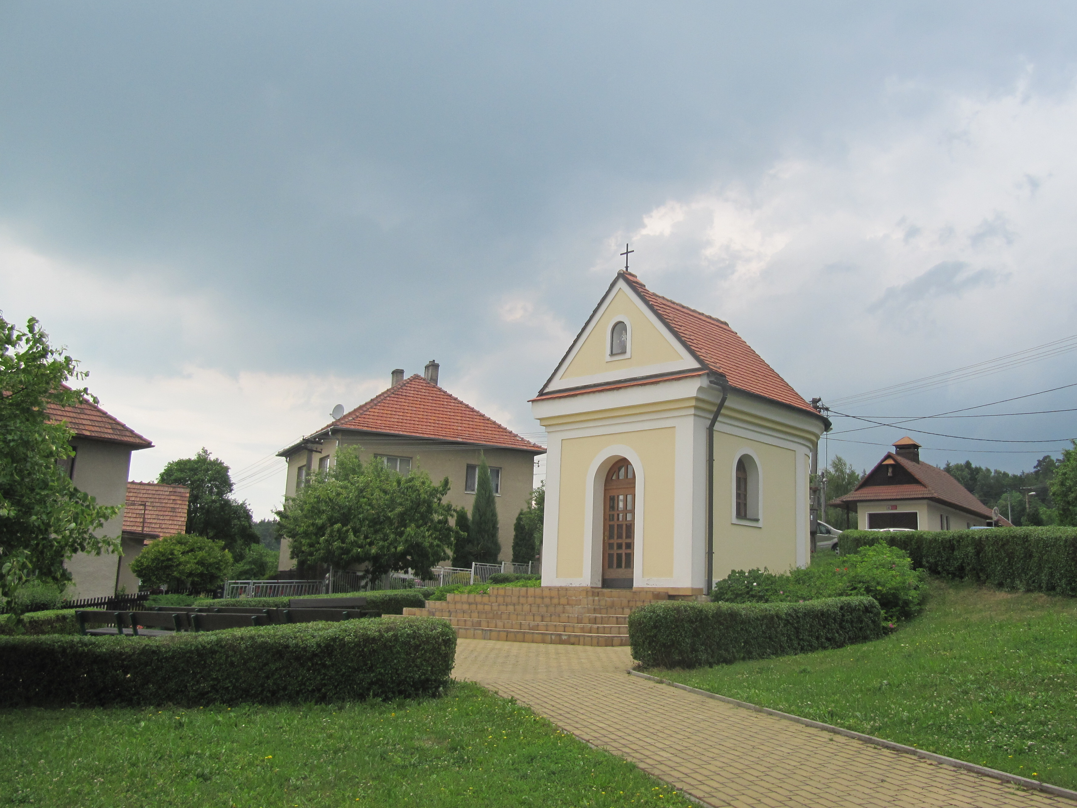 Hrobice in Zlín District, Czech Republic. Chapel of Our Lady of Sorrows. This photograph was taken within the scope of the third year of the 'Czech Municipalities Photographs' grant.